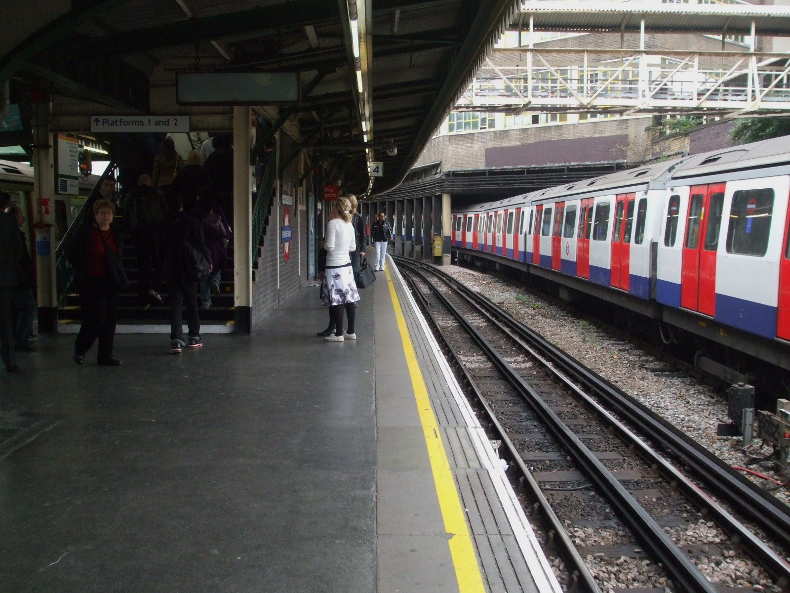 Edgware Road tube station (Circle/District/Hammersmith & City lines) westbound through platform 4 looking east. Some sidings are visible to the right.